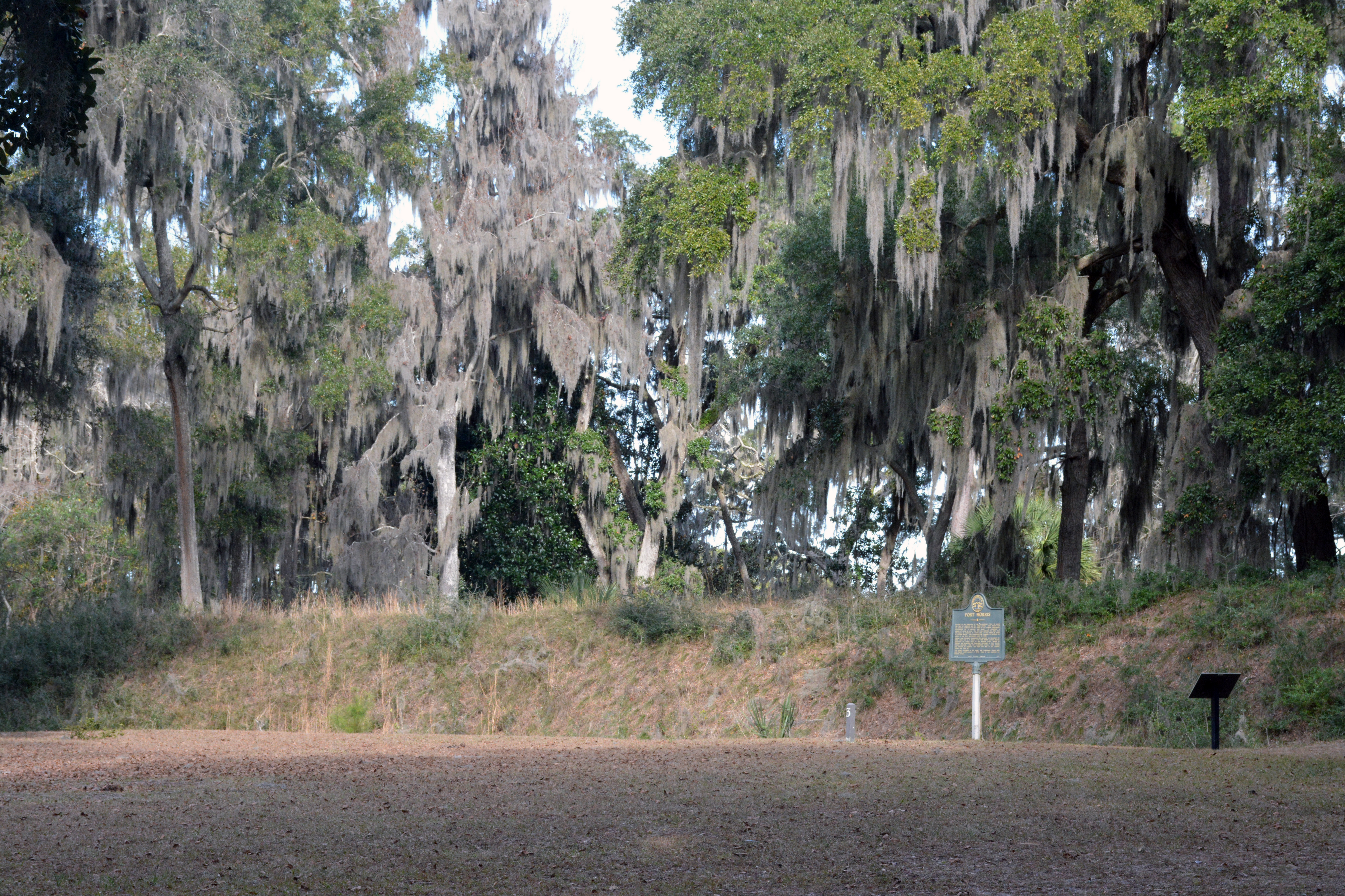 Earthen mounds of Fort Morris, near Midway, GA, USA